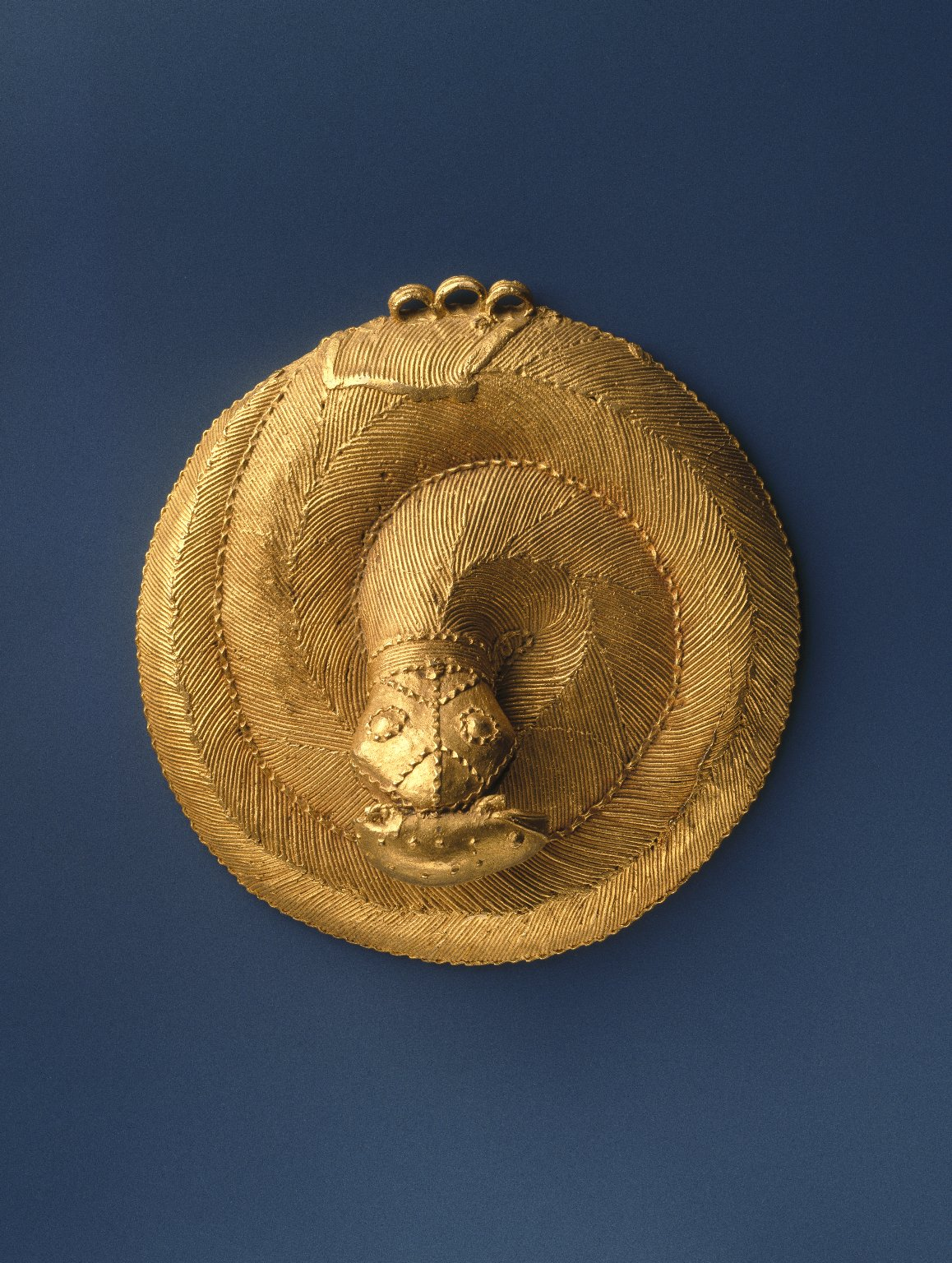 A coiled snake with head facing downward, holding a toad in its mouth. It was cast cire perdue and constructed of fine adjacent threads. There are 3 hooks for suspension. Condition: good, except for crude repair to metal next to supporting loops.